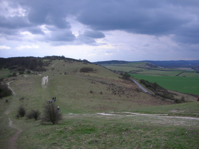 View from Beacon Hill, Ivinghoe. This view shows the Chiltern Hills toward Tring from the top of Ivinghoe Beacon